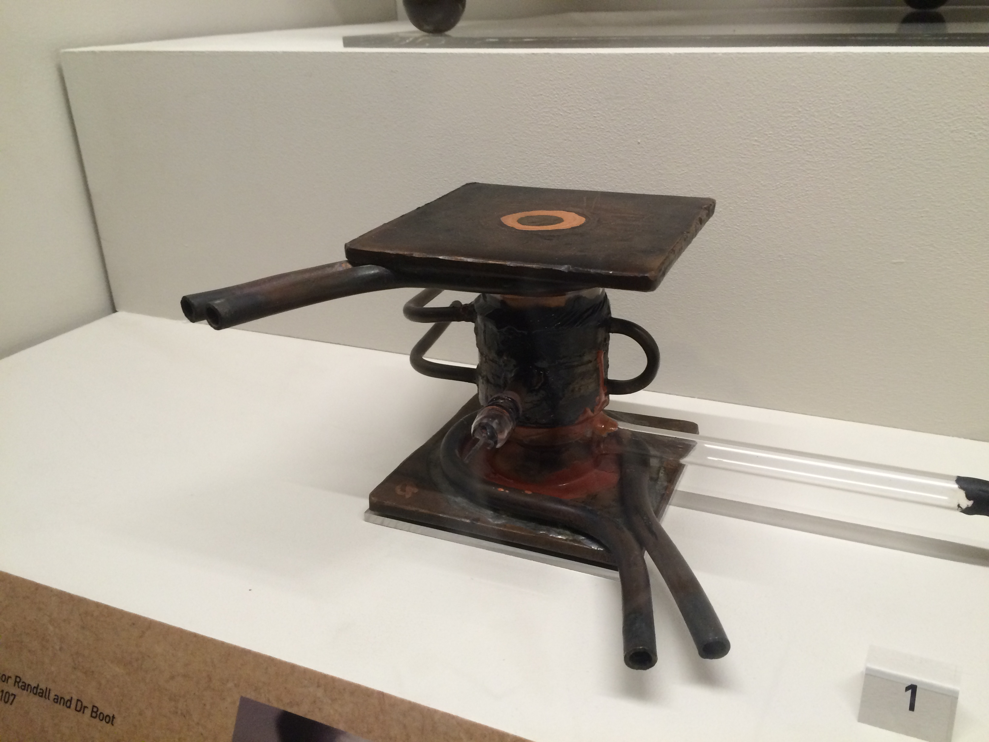 John Randall and Harry Boot's original magnetron, photographed in London Science Museum.